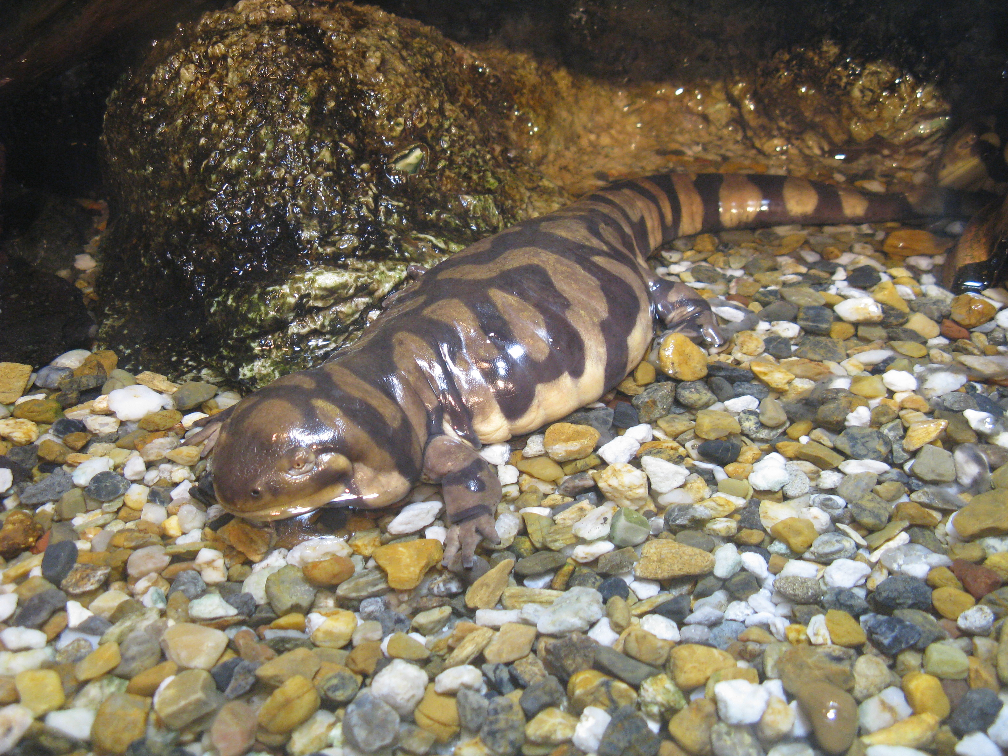 Barred tiger salamander (Ambystoma mavortium) at the Tennoji Zoo in Osaka,Japan